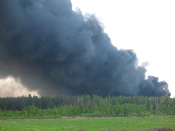 Fire of toxic waste storage at Krasny Bor 24 Mai 2008